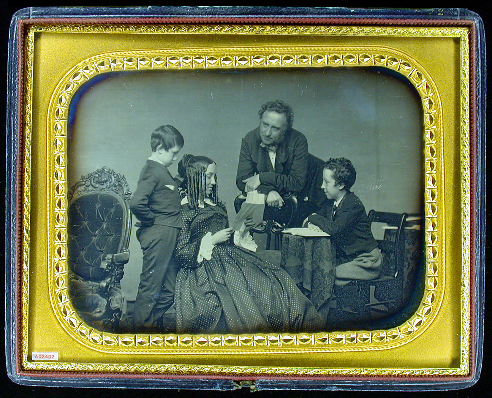 Henry Winthrop Sargent (November 26, 1810 – November 11, 1882). His wife, Caroline Olmsted Sargent (1819-1887) is seated reading a letter. Their younger son, Francis Sargent (1844-1869) stands leaning against his mother's chair. The older son, Winthrop Henry Sargent (1840-1916) sits facing his mother, an open book on the table in front of him.